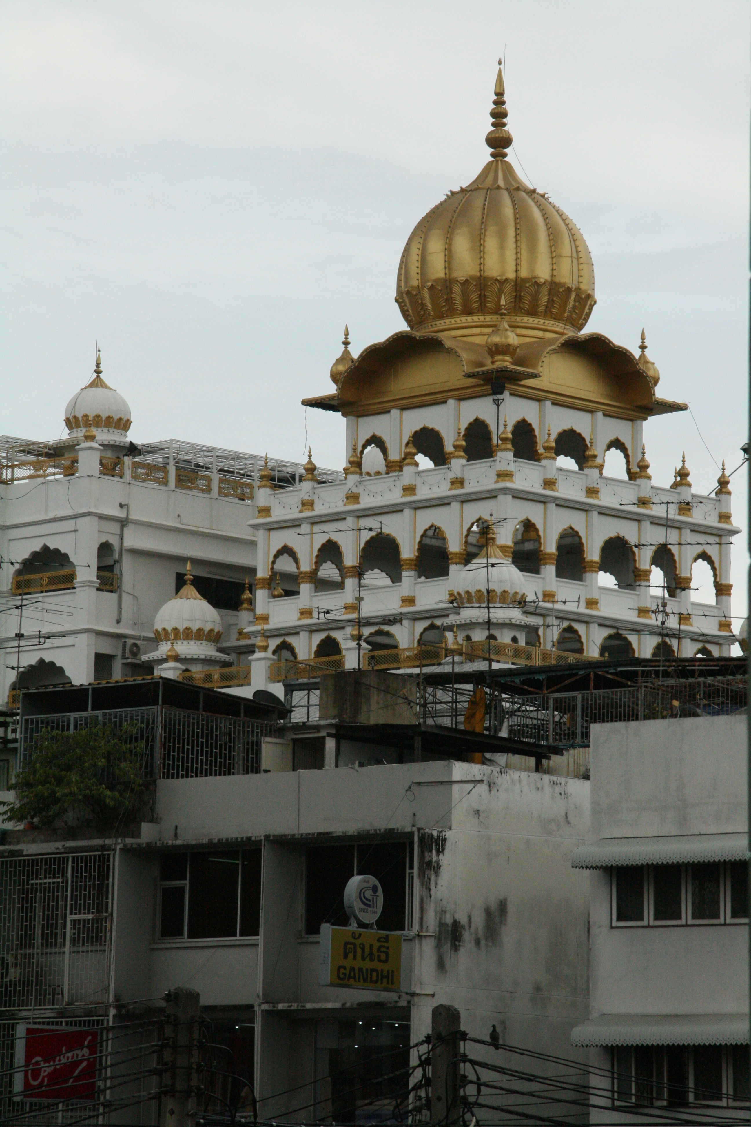 Dome of Gurudwara Siri Guru Singh Sabha seen behind shophouses, Bangkok, Thailand. An important Sikh temple for the Sikh community in Thailand. It is also the landmark of Phahurat neighborhood, the Indian district of Bangkok.